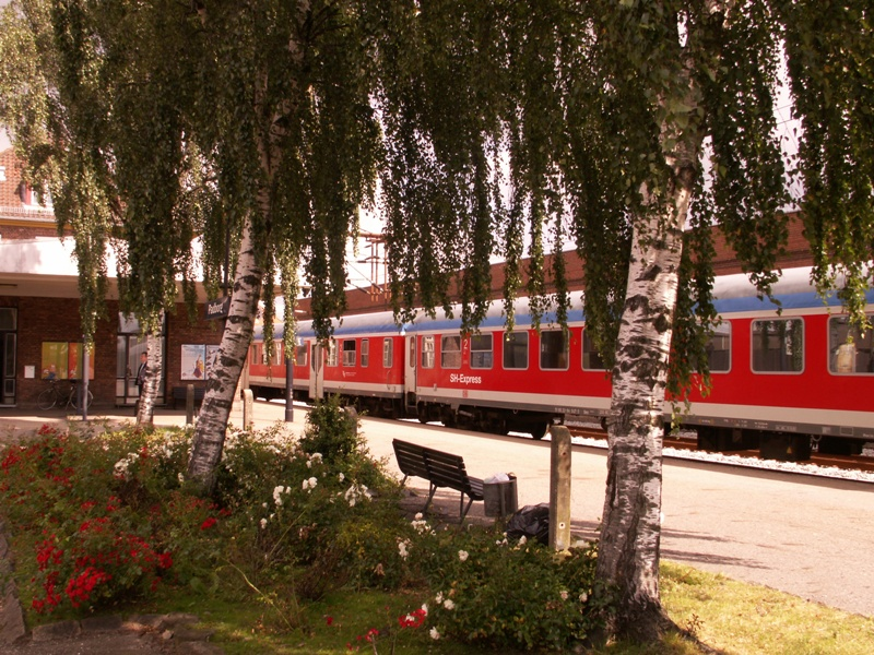 SH express train in Germany.